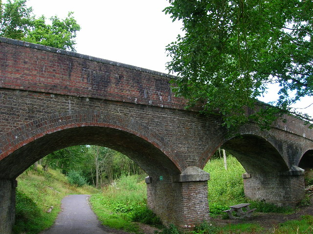 Shawpits Bridge, near Hellingly. This bridge carries the farm track from Shawpits Farm to the A267 over the former railway line now the Cuckoo Trail. This view looks north.